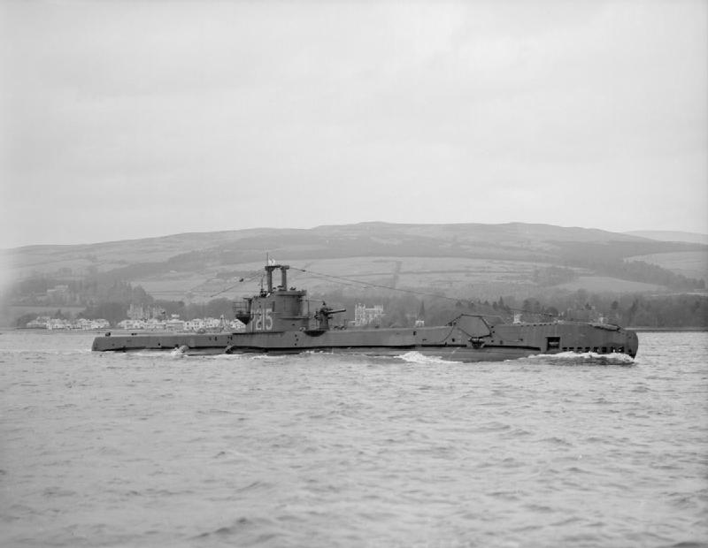 British S class submarine HMSM SCEPTRE underway on completion.